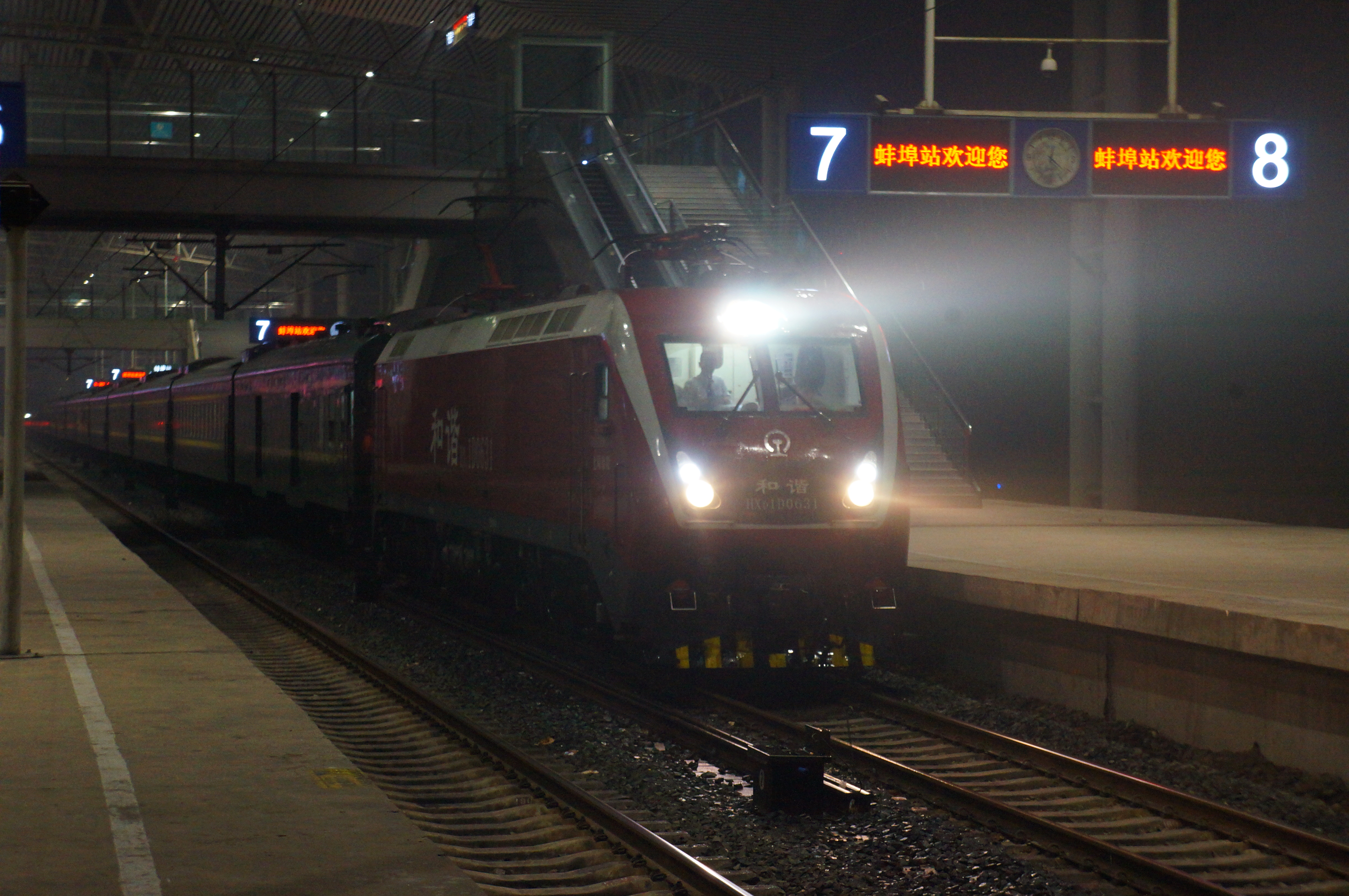 201812 HXD1D-0631 hauls K48 from Hangzhou to Qiqihar enters into Bengbu Station